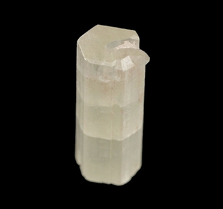 Hydroxylapatit from Bolivia Locality: Cerro Huañaquino, Potosí Department, Bolivia Size: 1.3 x 0.5 x 0.4 cm. The area around Cerro Huanaquino is best known for its excellent Magnetite specimens, but a close second behind these pieces are the attractive and very well crystallized Carbonate-rich Hydroxylapatite crystals. Carbonate-rich Hydroxylapatite is actually a variety of Hydroxylapatite, and is well-known from a fair number of world localities, but not often are the crystals as large, attractive and well-formed as the Bolivian specimens. This piece is a great thumbnail sized specimen of Carbonate-rich Hydroxylapatite with well-defined hexagonal form, a soft peach-tan color, medium luster, and is somewhat translucent. It is one of the better crystals of this rare material that I have handled.